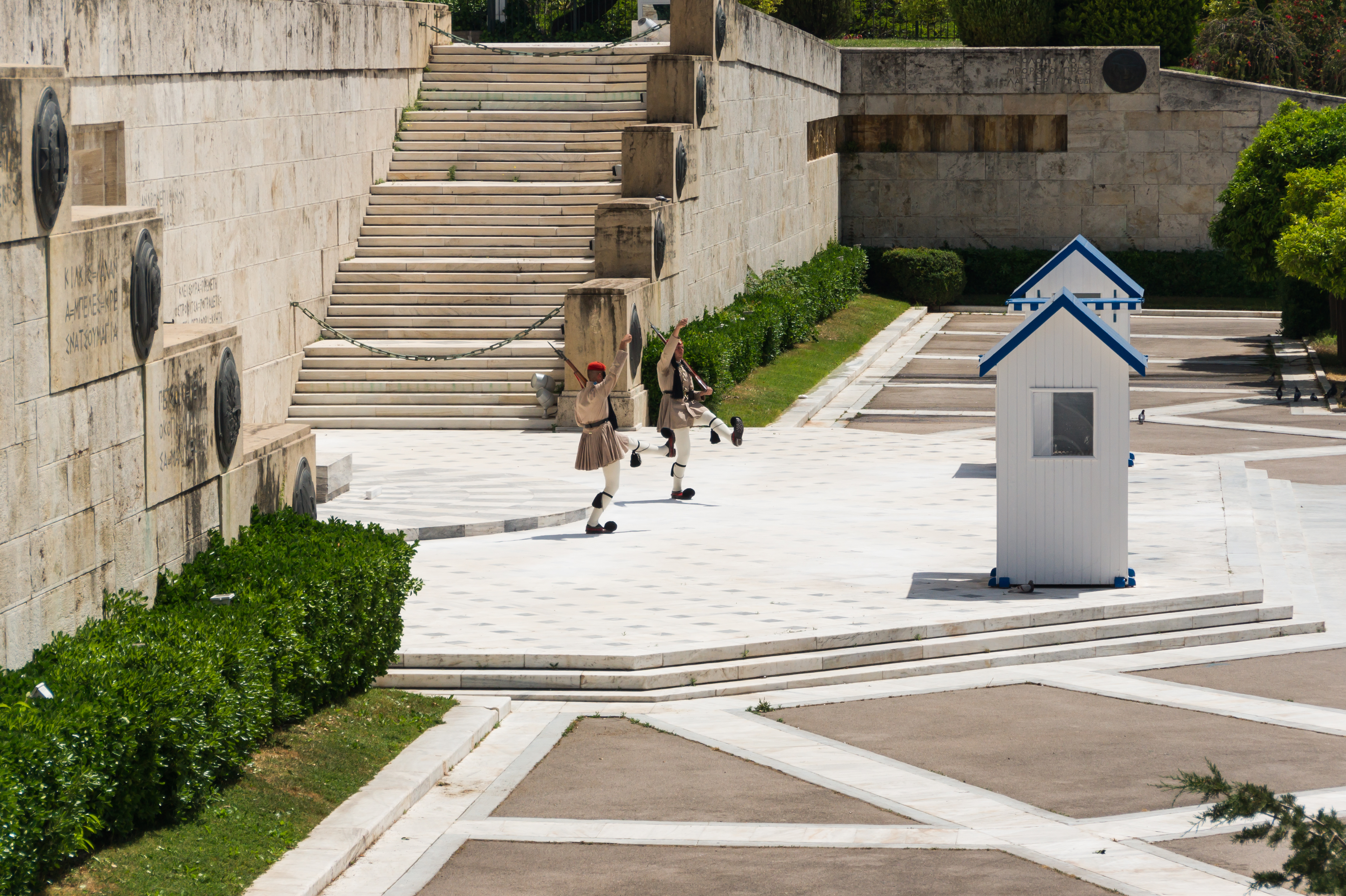 Evzones marching, Tomb of the Unknown Soldier, Athens, Greece